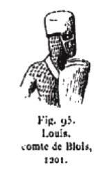 Louis I, Count of Blois